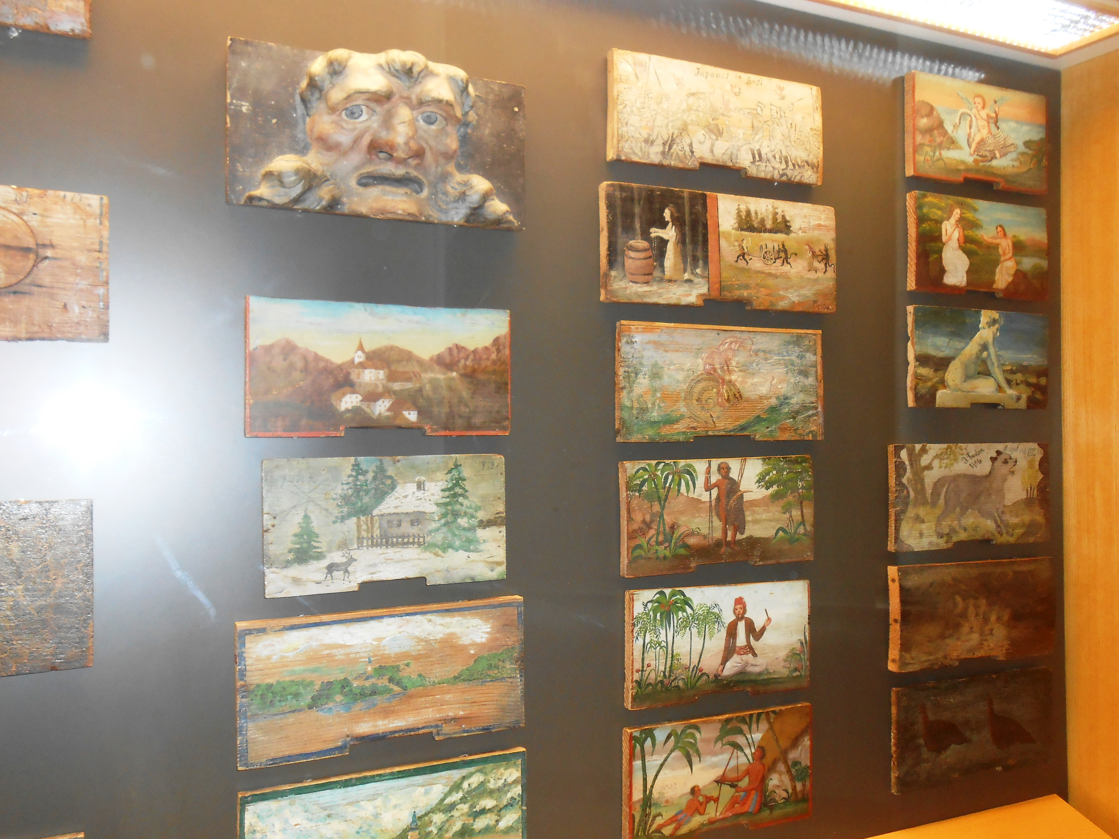 Museum of Beekeeping, Radovljica, pictures on hives, Slovenia 02